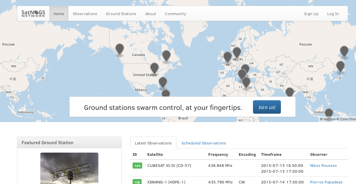 screenshot of the satnogs network